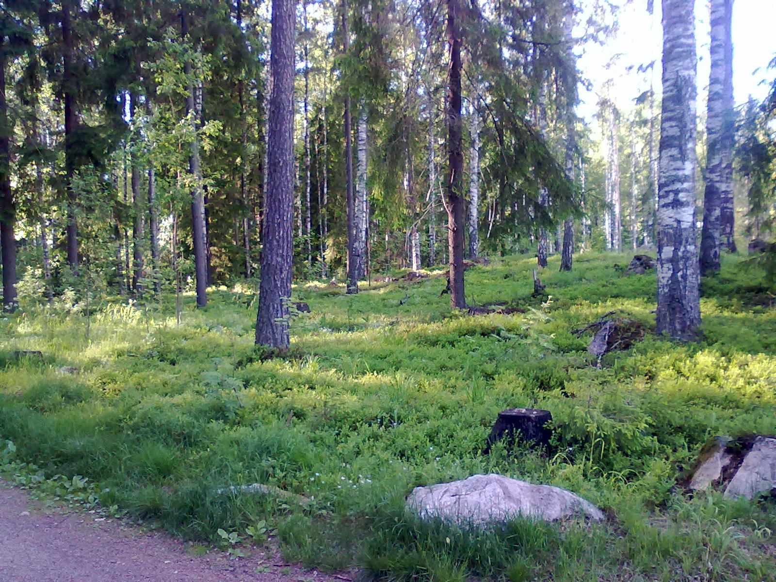 Area called Maarukanmetsä in Vantaa City, Finland.